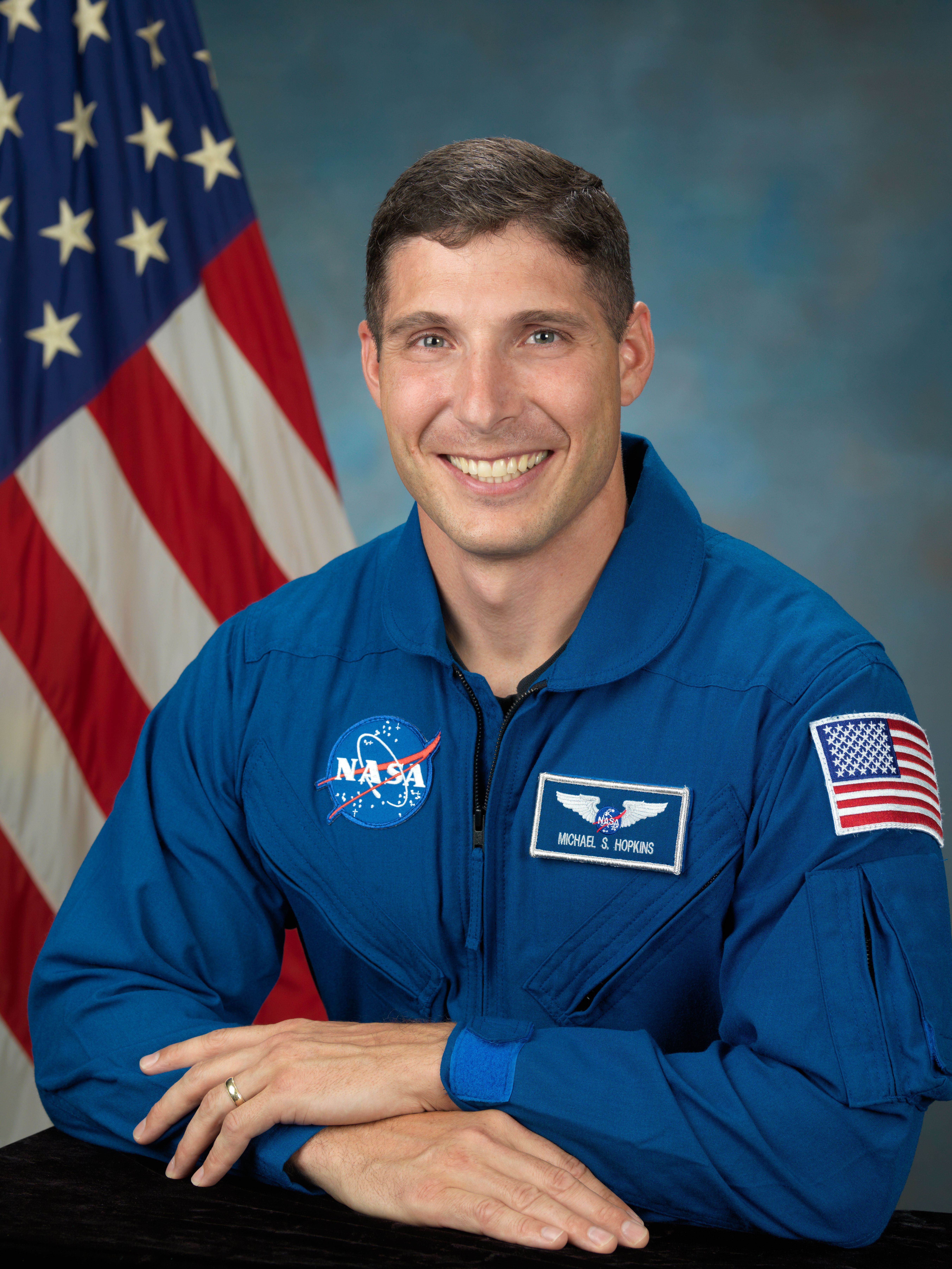 Michael S. Hopkins, NASA astronaut candidate class of 2009